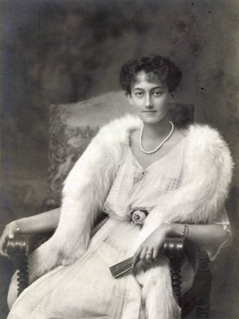 Princess Antonia of Luxembourg